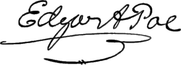 Reproduction of the signature of American writer Edgar A. Poe. From Edgar Allan Poe by George E. Woodberry, published by E.B. Hill, 1885. Digitized May 12, 2005